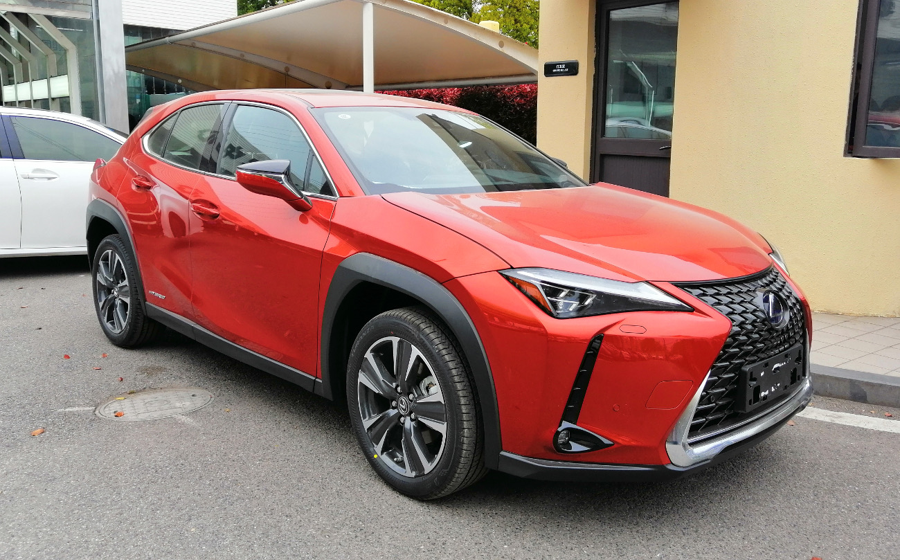 Lexus UX Hybrid photographed in Shanghai, China.